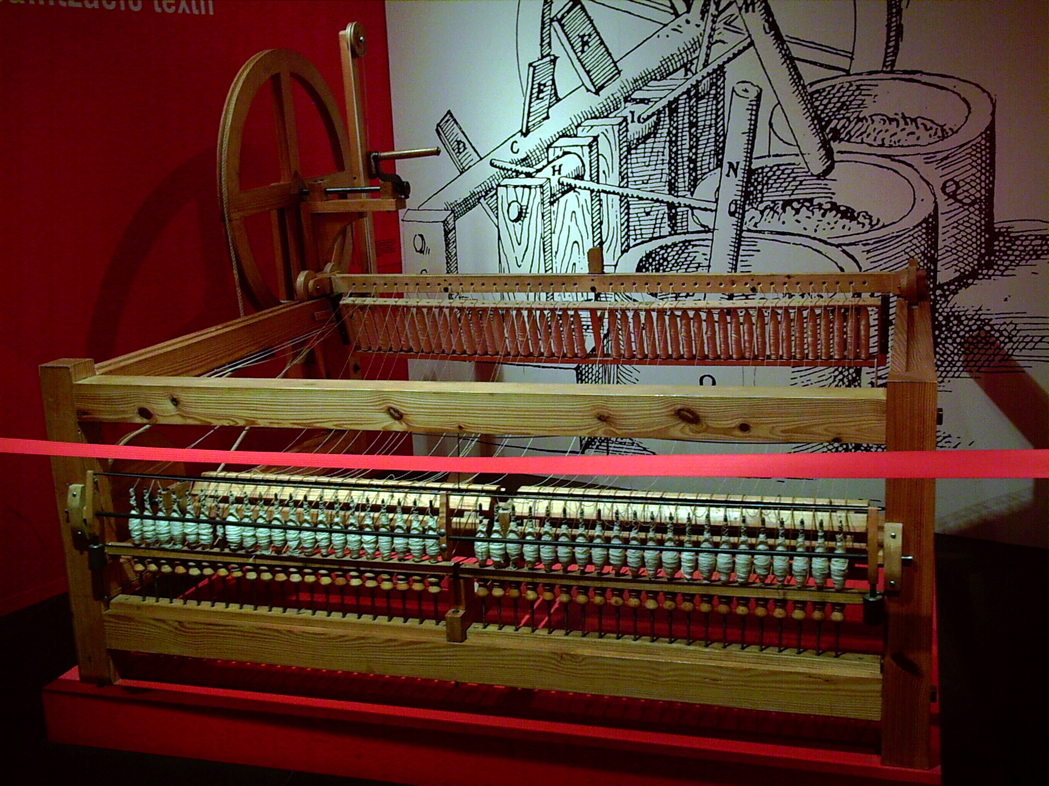 Berguedana spinner, at the mNATEC, Terrassa, (Catalunya).